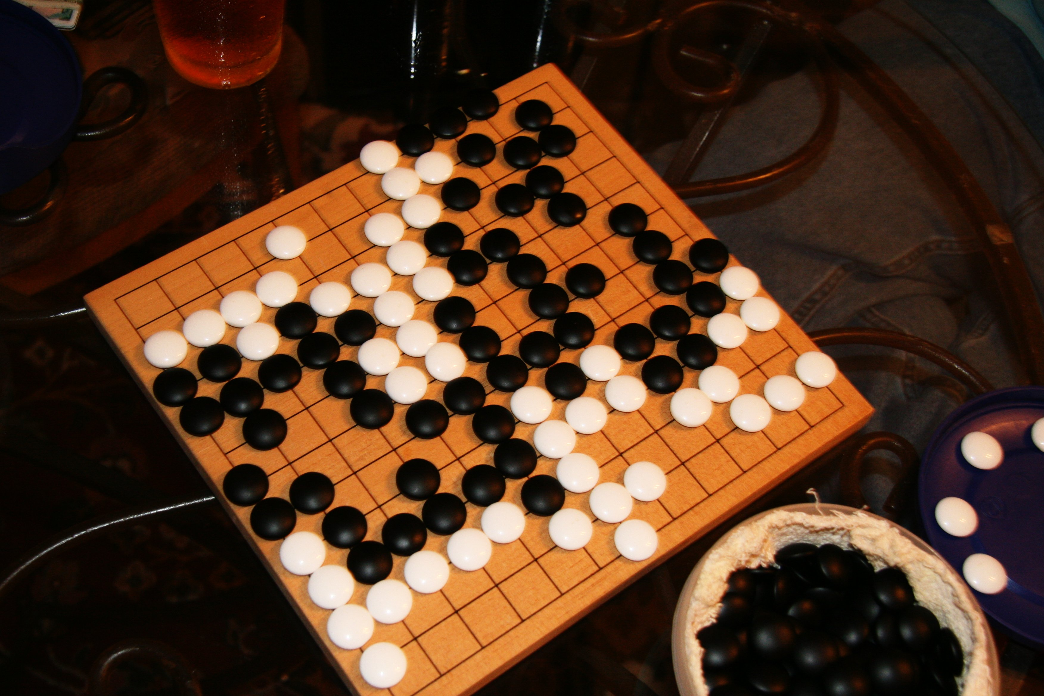 A finished game of Go on a 13 X 13 board for beginners. The result was 30 white, to 28 black, i.e. White wins by 2.